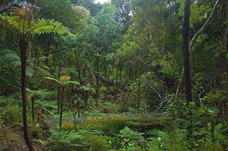 Rain forest on Ulva Island, New Zealand